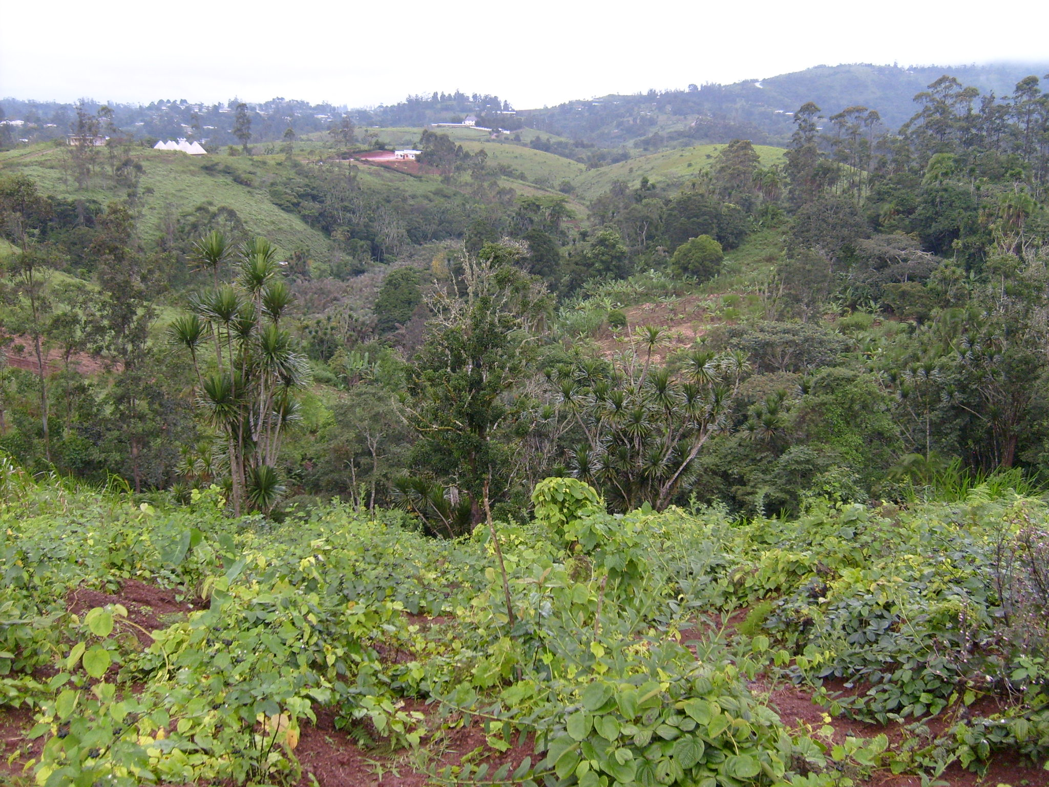 Many regions in Cameroon are particularly mountainous. Rampant rates of deforestation threaten the regions watershed and soil fertility. Therefore, TREES is working with farmers to plant trees along hillsides to improve the soil and protect against erosion.